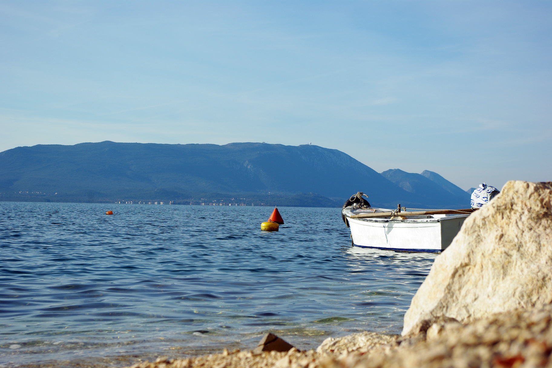 Komarna, Dalmatia.